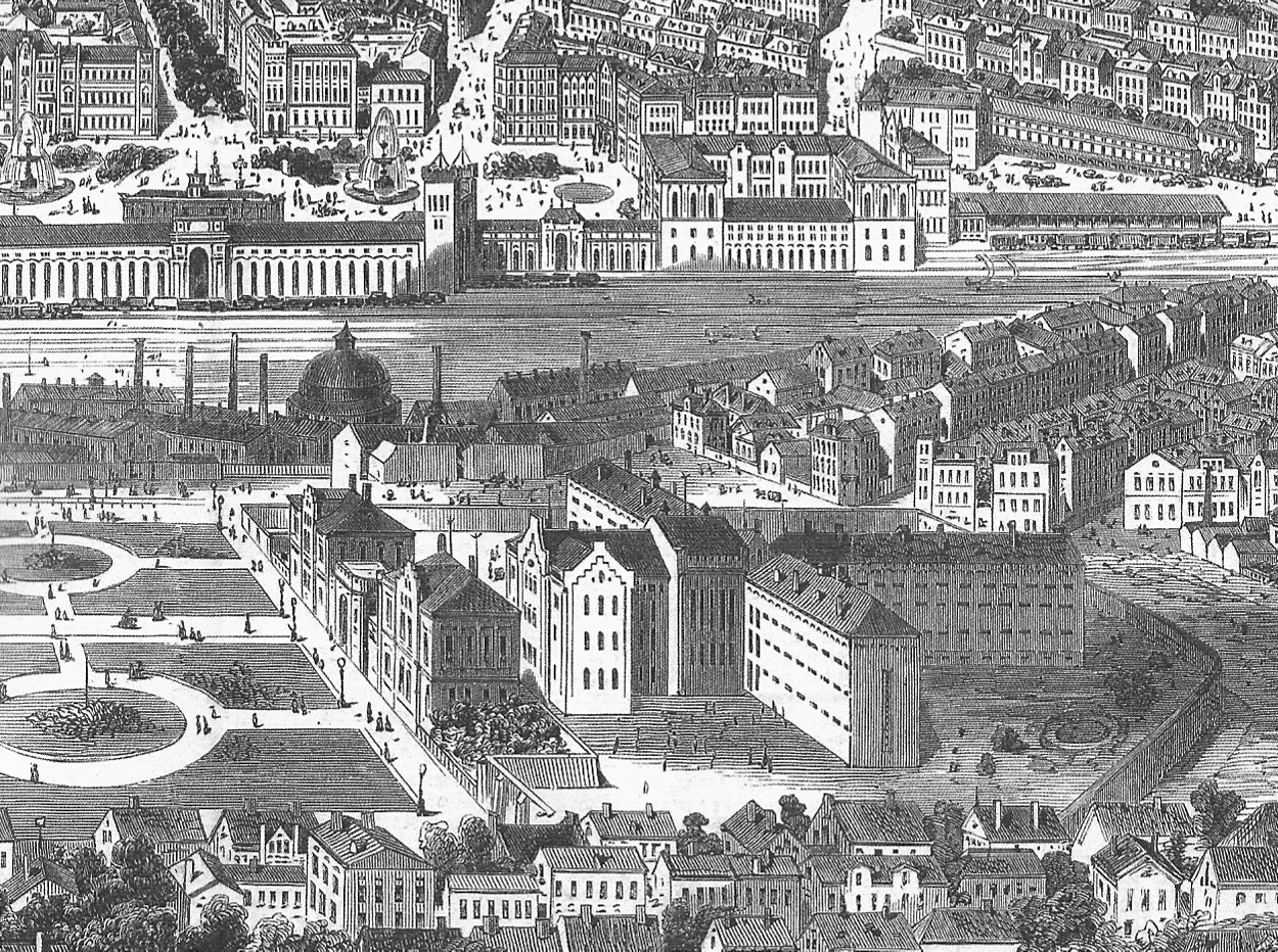 old engraving of the prison in Hanover behind the central station